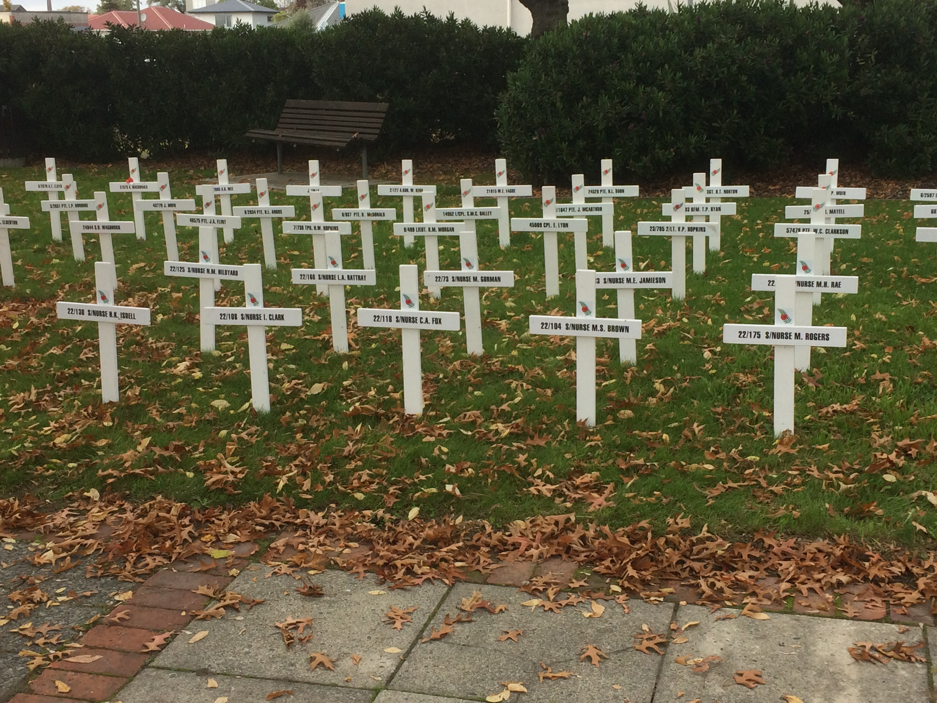 2017 Anzac Parade, Papanui The first ten crosses commemorate the nurses who died on the SS Marquette. Located on the lawn behind the Papanui WWI memorial.